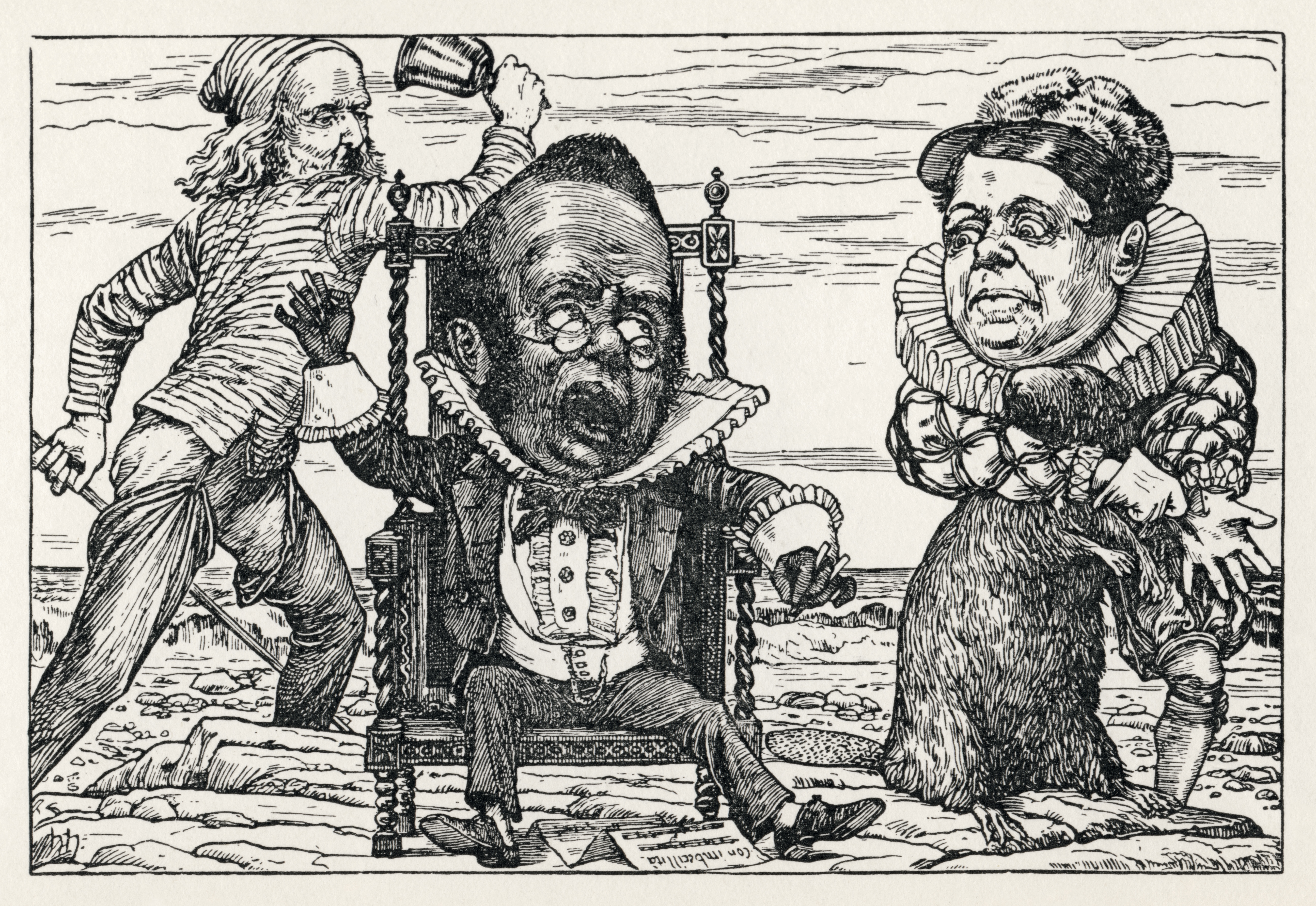 Ninth of Henry Holiday's original ilustrations to "The Hunting of the Snark" by Lewis Carroll.